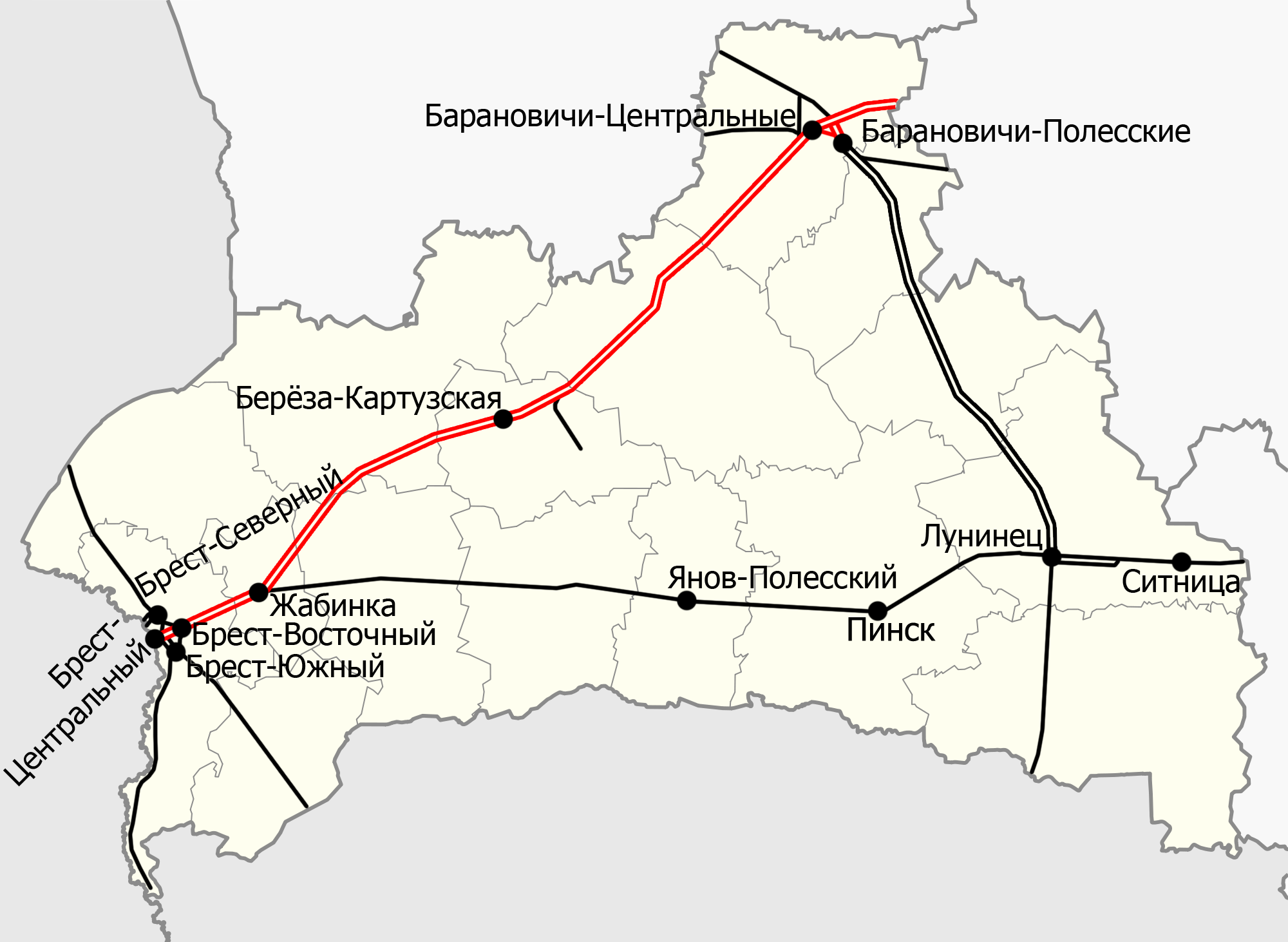 Railroads in Bresckaja voblasć, Belarus. Electrified railroads are shown in red. Main stations are marked and signed in black.